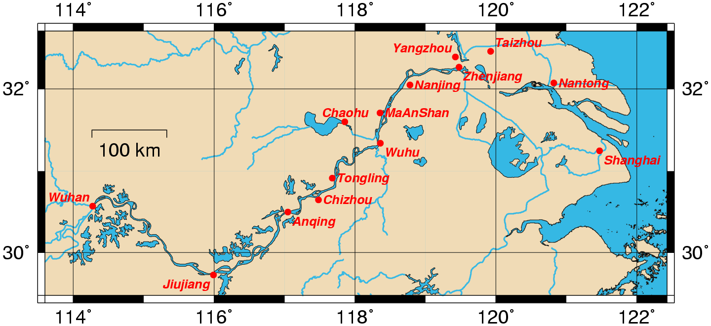 This is modified version of Image:Lower yangtze 2.png. It shows a smaller region and has been optimized for readability of the city names. Also, the decimal coordinates for Nanjing have been changed: has been translated into the decimal coordinates 32.05, 118.7833. This map was generated using the Generic Mapping Tools (GMT).